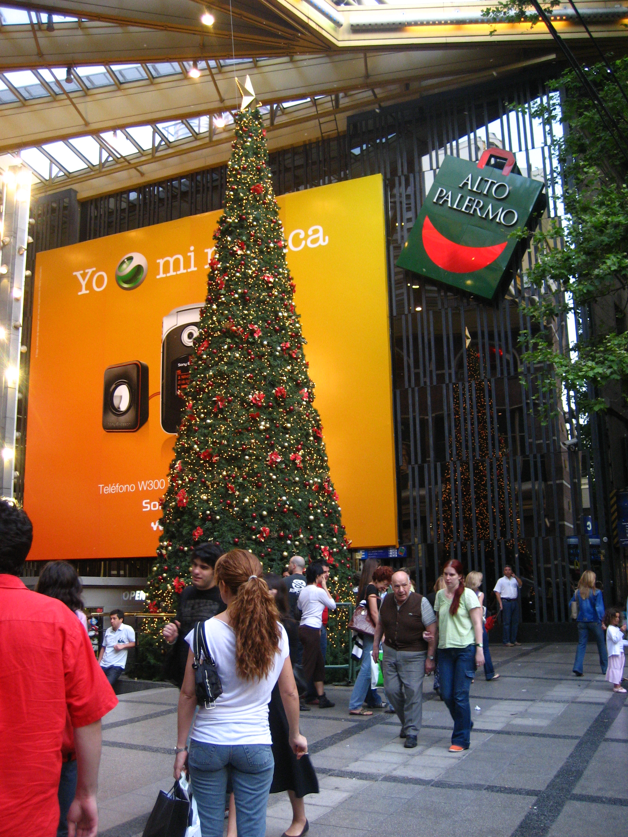 Alto Palermo Shopping Mall. Buenos Aires, Argentina.